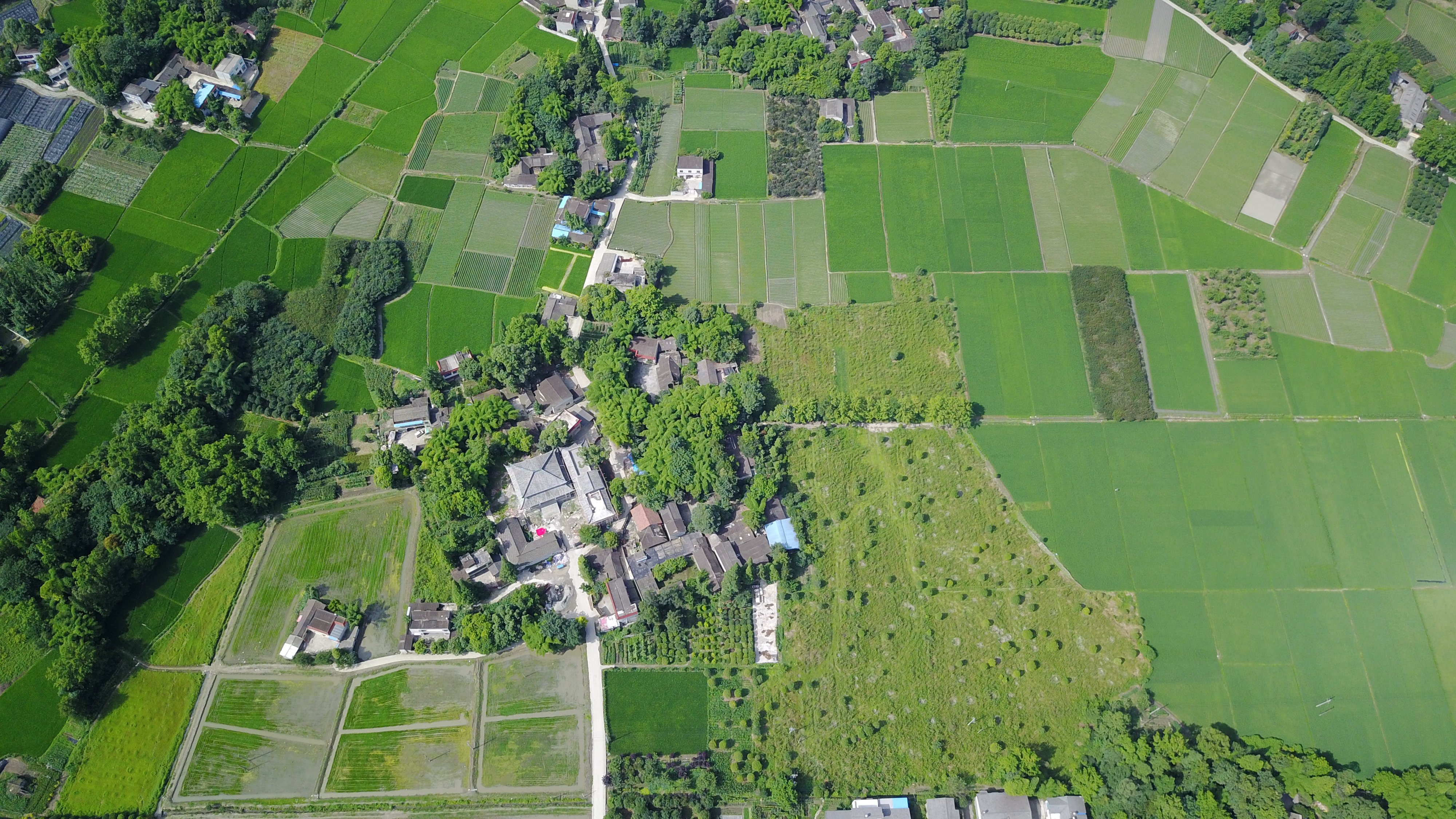 A Typical Linpan in Pi County